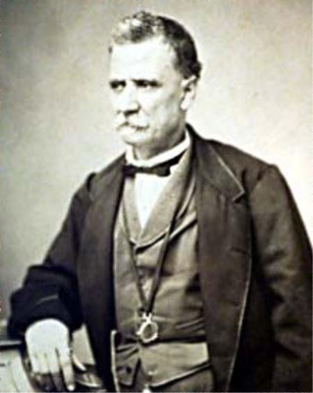 Alèxandros Koumoundoùros - Athens, Photographic Archive of Hellenic Literary and Historical